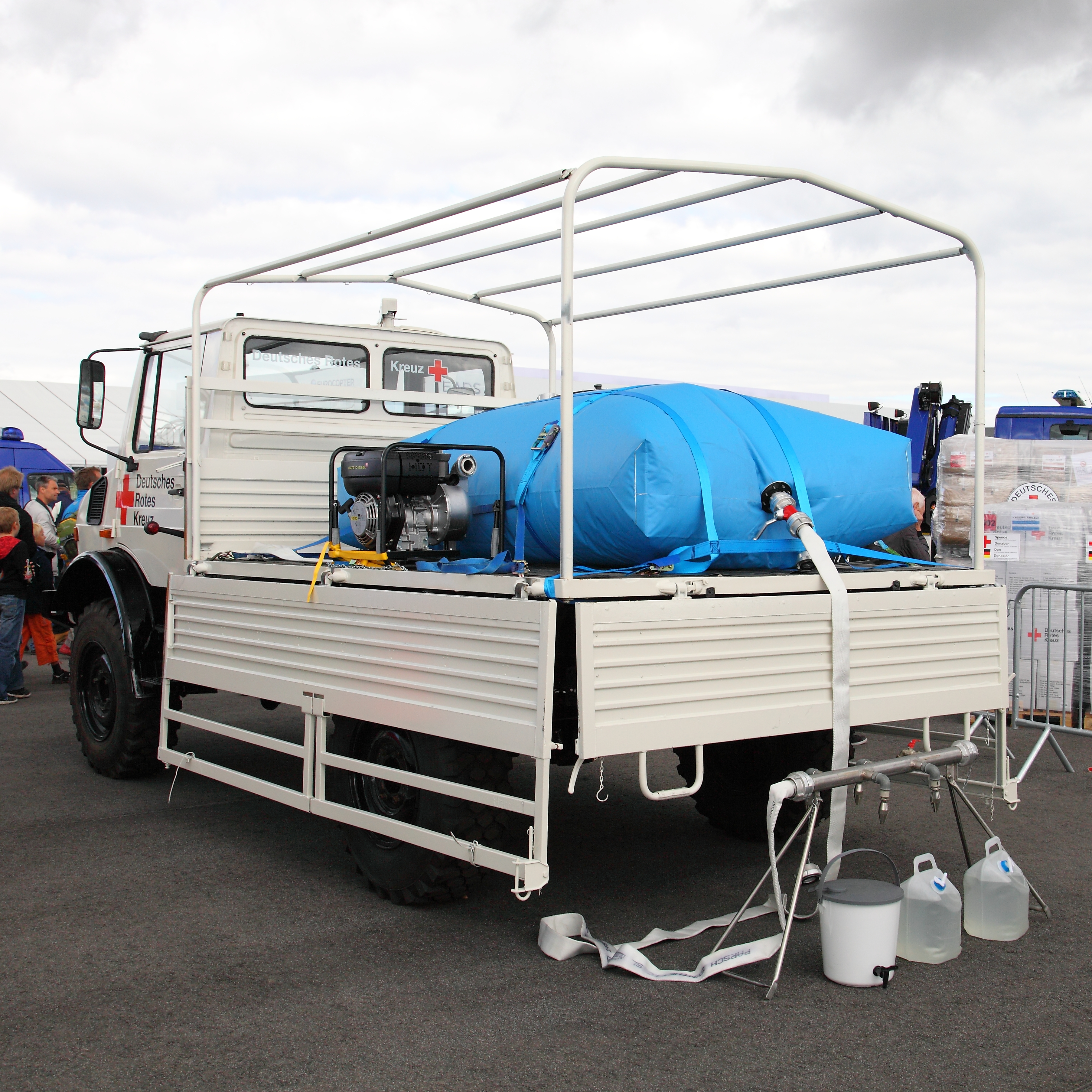 ILA Berlin Air Show 2012 ; Flexitank for emergency or regular drinking water supply, for efficient liquid storage; Flexitank Container